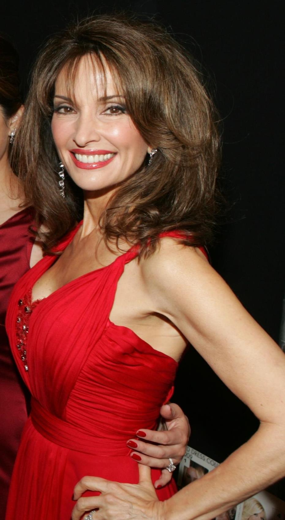 Samantha Harris, Vivica A. Fox, Jennie Garth, Kristi Yamaguchi and Susan Lucci (left to right) back stage at the 2009 Heart Truth fashion show